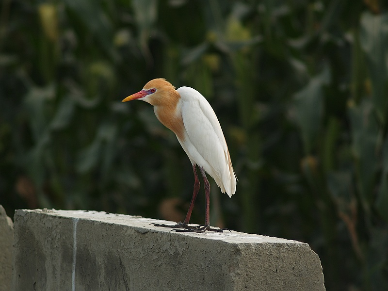 Bubulcus coromandus （牛背鷺．黃頭鷺）, breeding plumage, Yunlin County, Taiwan, 2008.